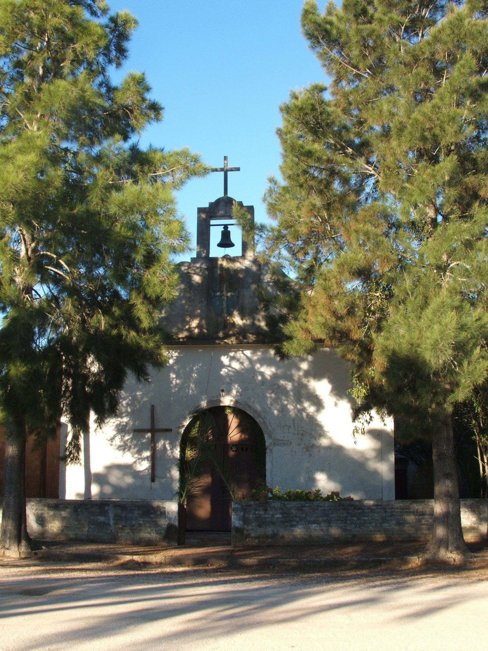 Chapel of Our Lady of Mercy at Pueblo Garzón